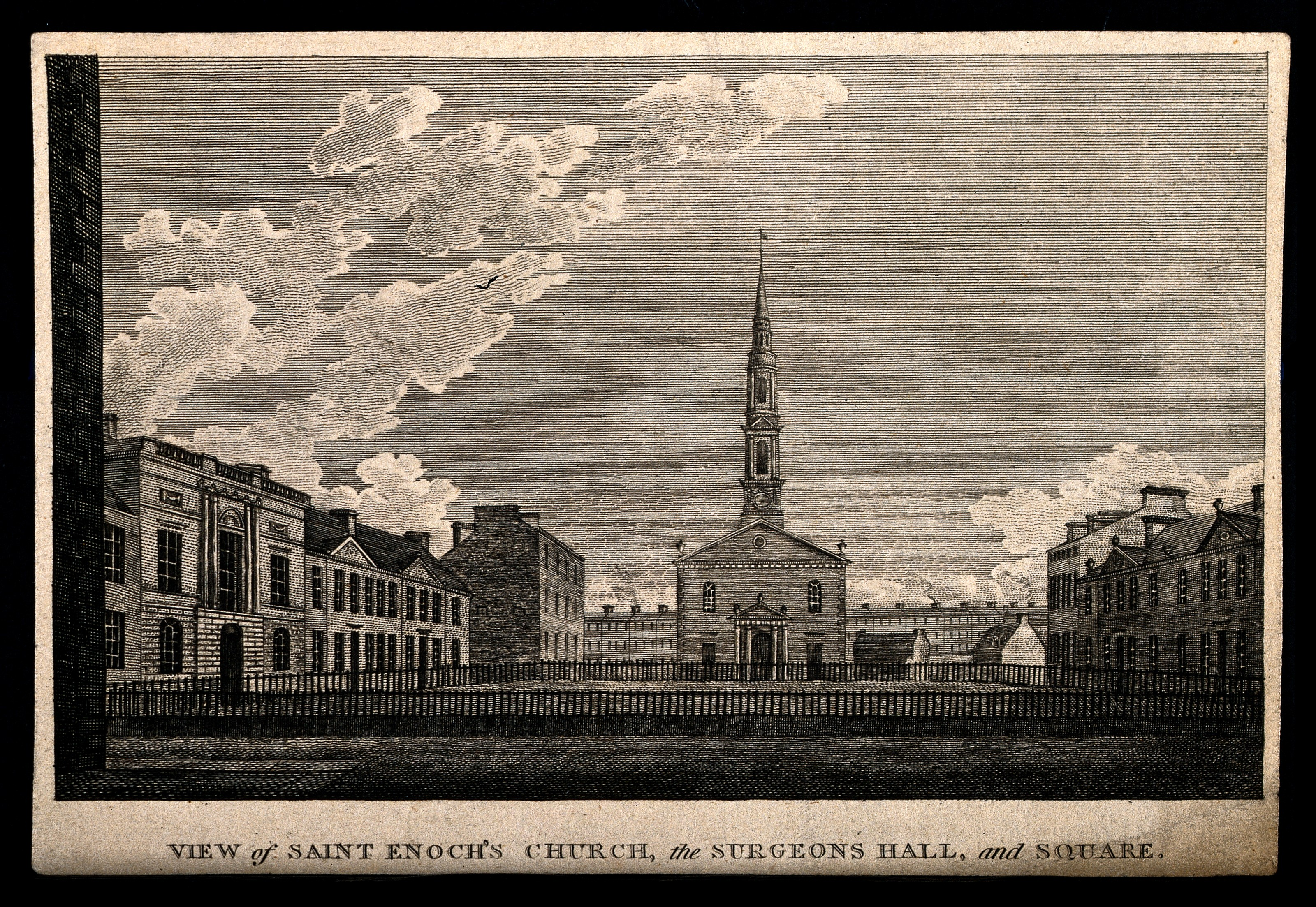 St. Enoch's Church, Surgeons Hall and square, Glasgow, Scotland. Line engraving. Iconographic Collections